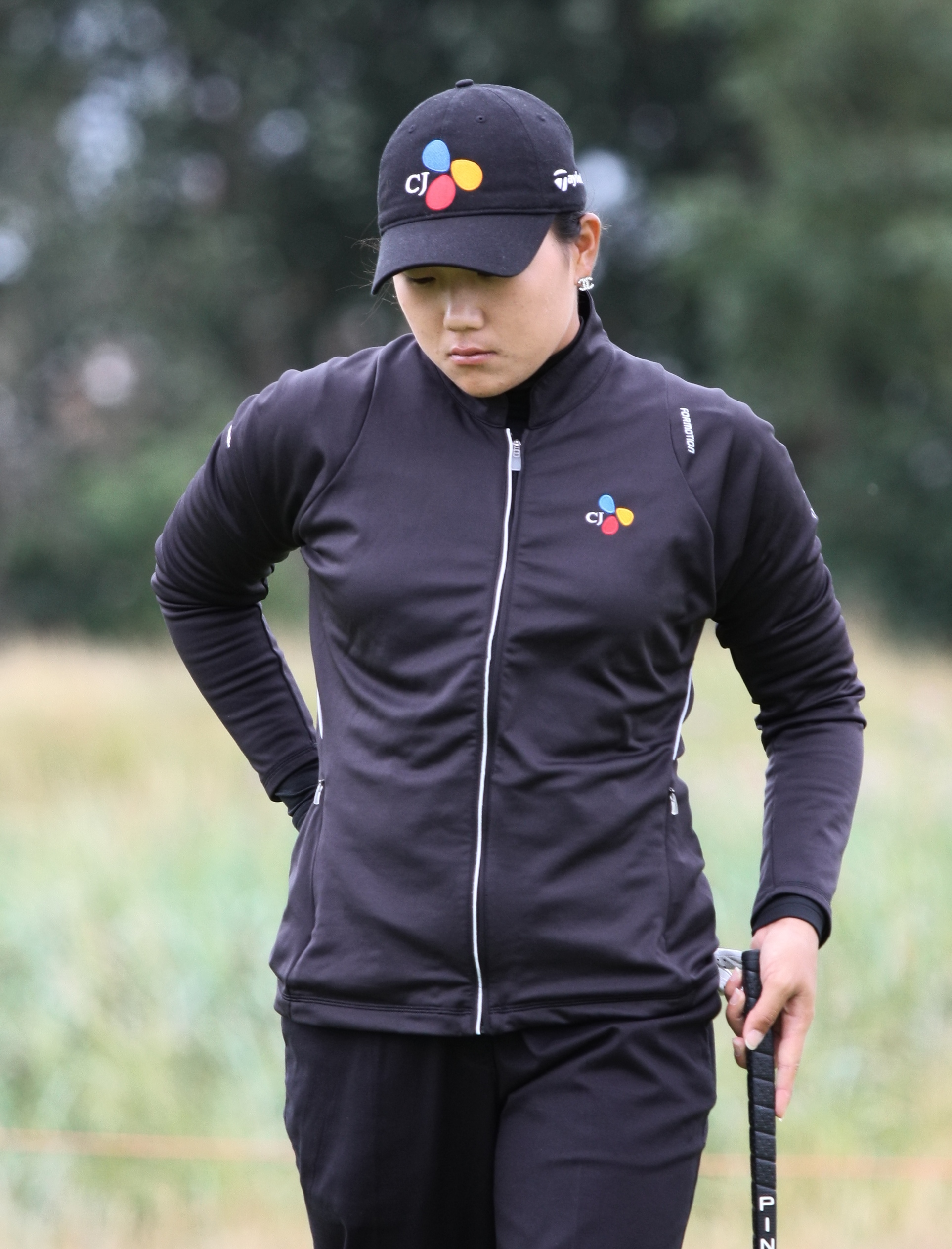 LYTHAM ST ANNES, UNITED KINGDOM - JULY 29: Seon Hwa Lee of South Korea on the 11th green during third practice round before 2009 Ricoh Women's British Open held at Royal Lytham & St Annes on July 29, 2009 in Lytham St Annes, England. (Photo by Wojciech Migda)